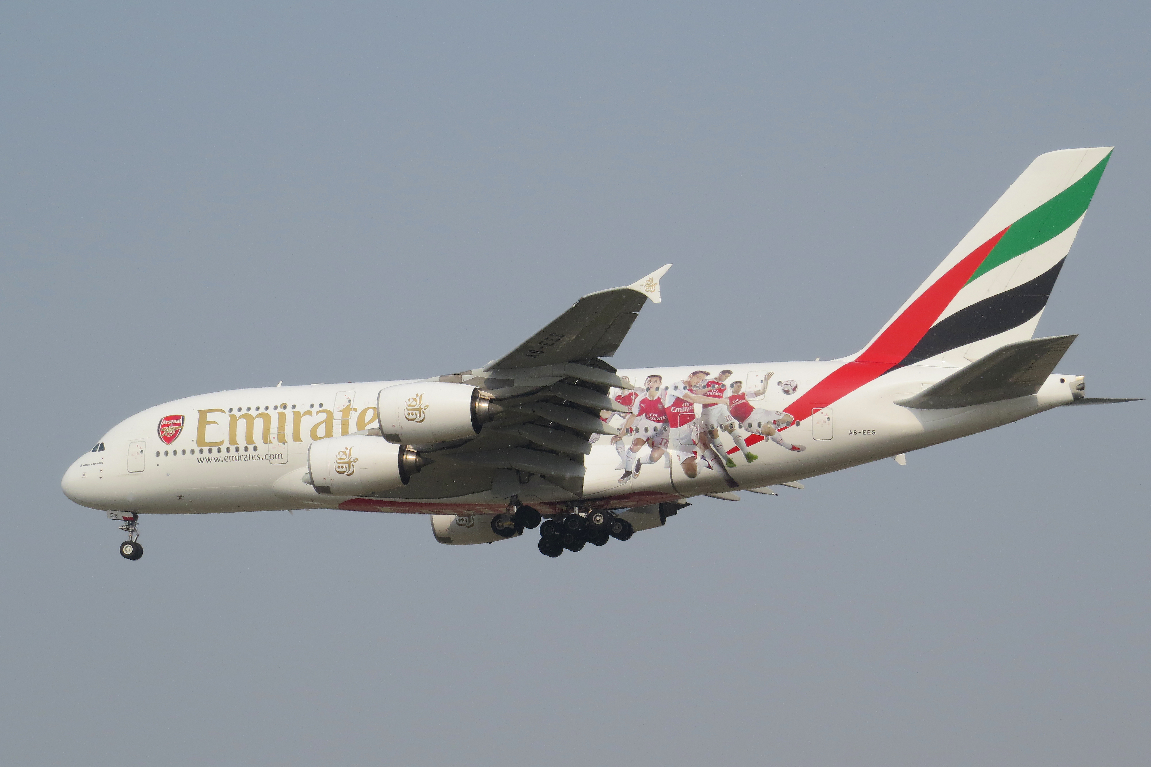 Emirates 306 from Dubai, with Arsenal FC markings.